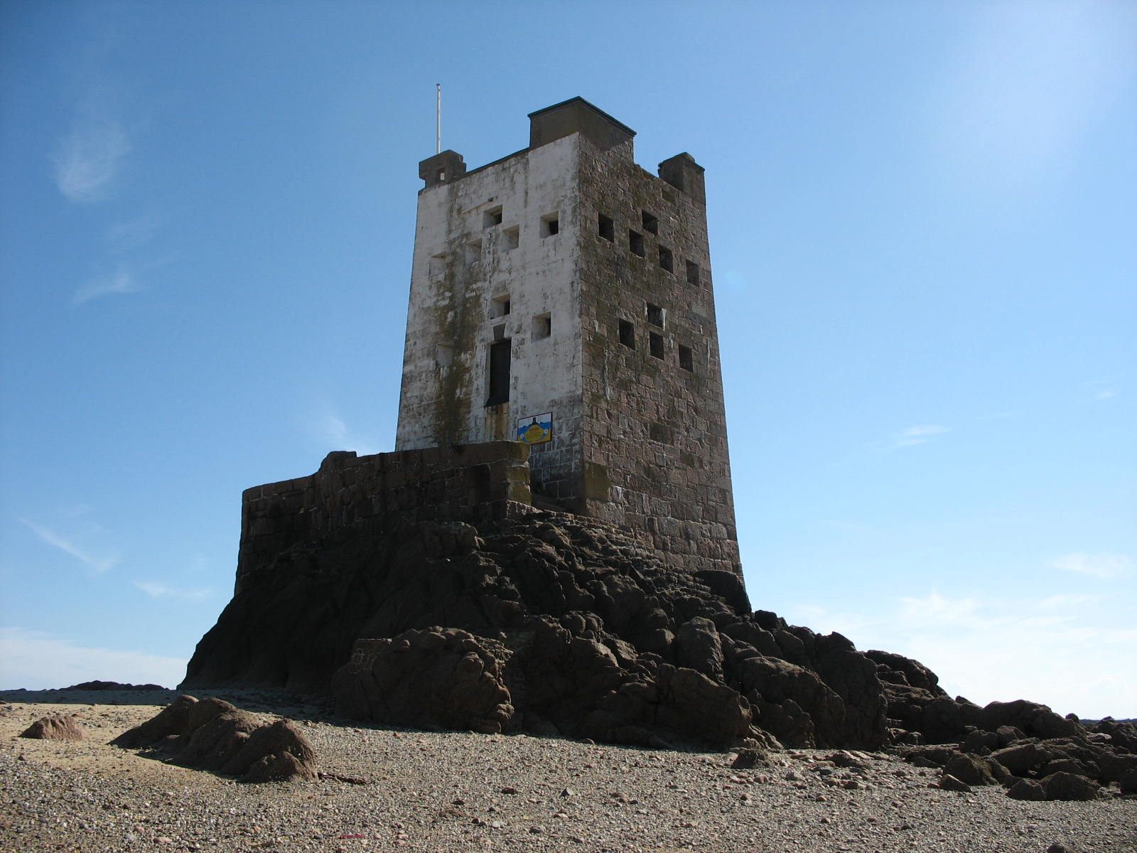 Seymour Tower, Jersey Nrf: L'Avathîson, Jèrri